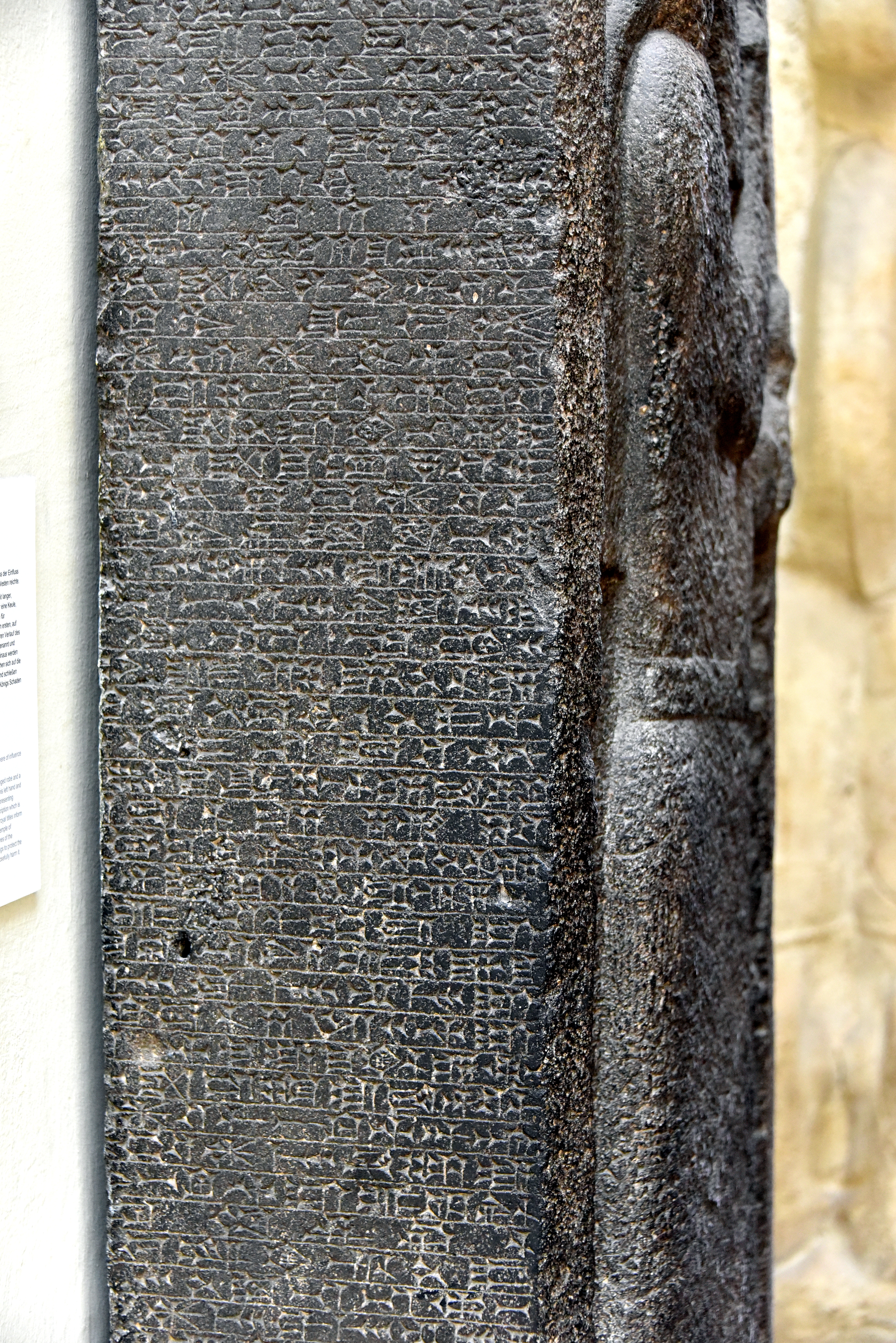 Detail showing the cuneiform inscriptions on the basalt stela of the Assyrian king Sargon II (r. 722-705 BCE) from Kition, Larnaca, Cyprus. Late 8th century BCE. Pergamon Museum, Berlin, Germany.